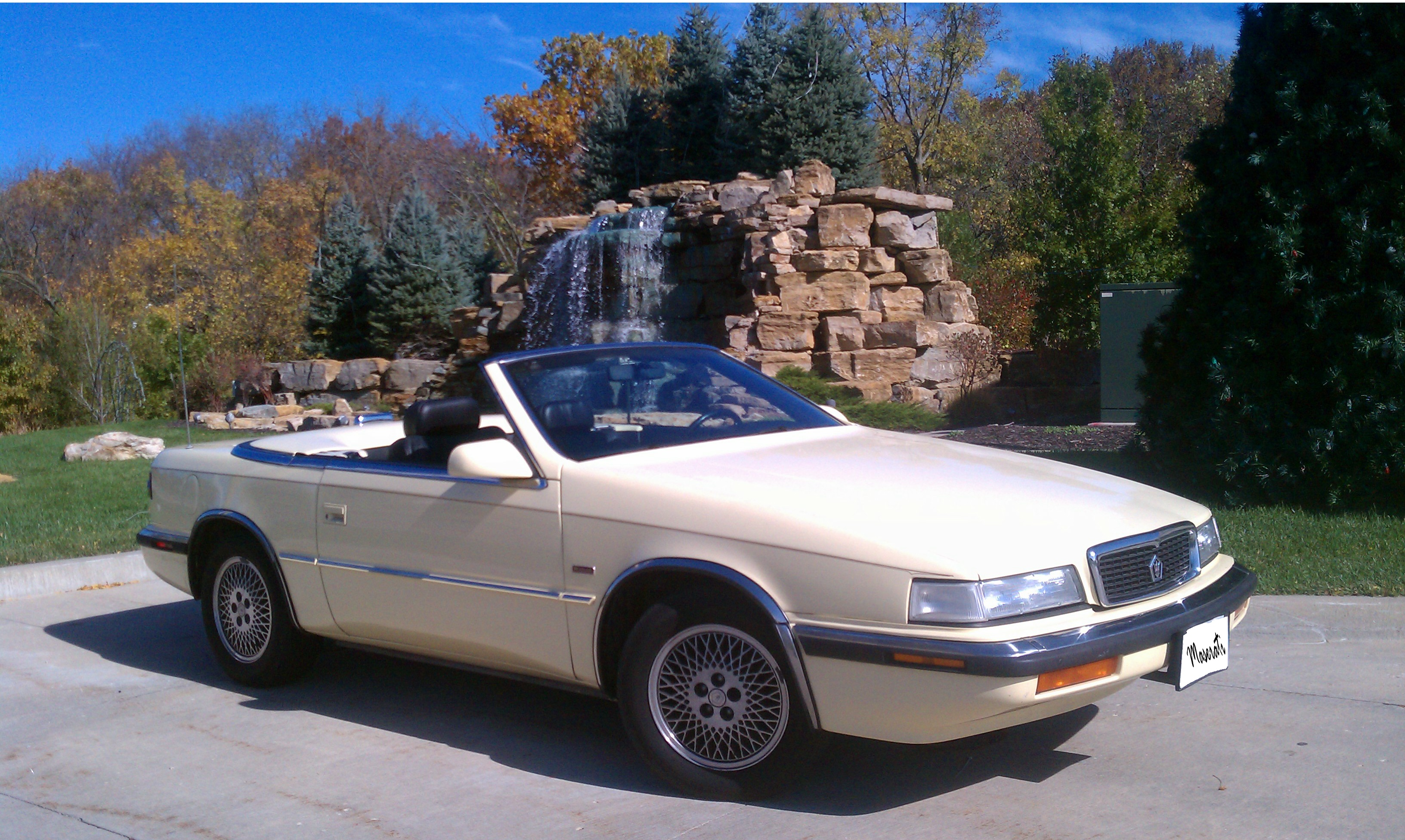 2.2 L 200HP16V intercooled turbo, 5 speed Getrag